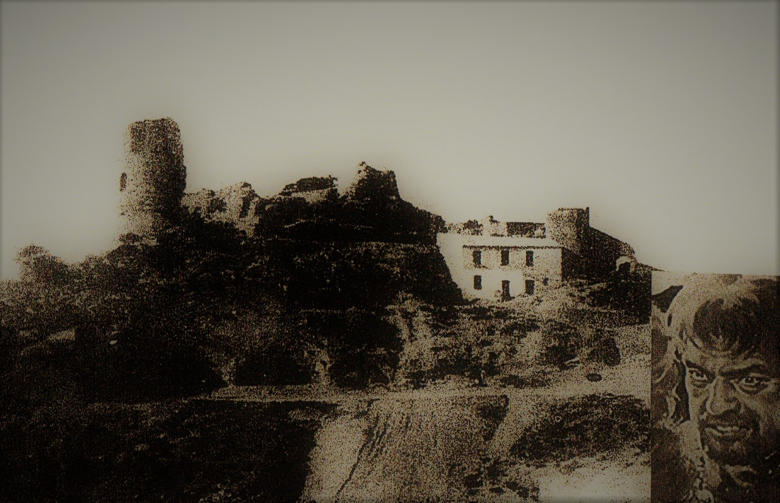 Ruderi del castello di Melissa (Calabria), di cui oggi rimangono pochi resti, e ritratto del conte Francesco Campitelli (1596-1668)